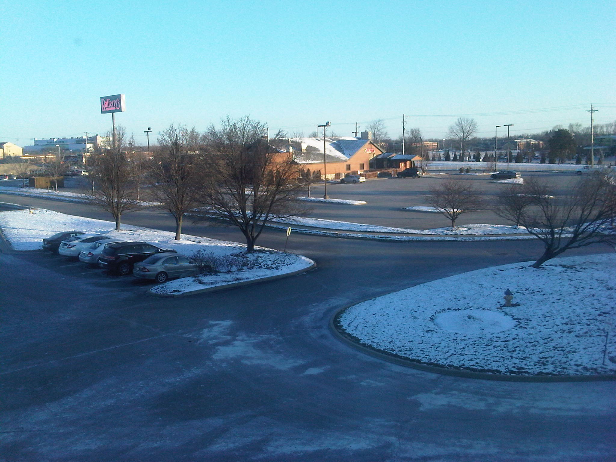 Florence, Kentucky.